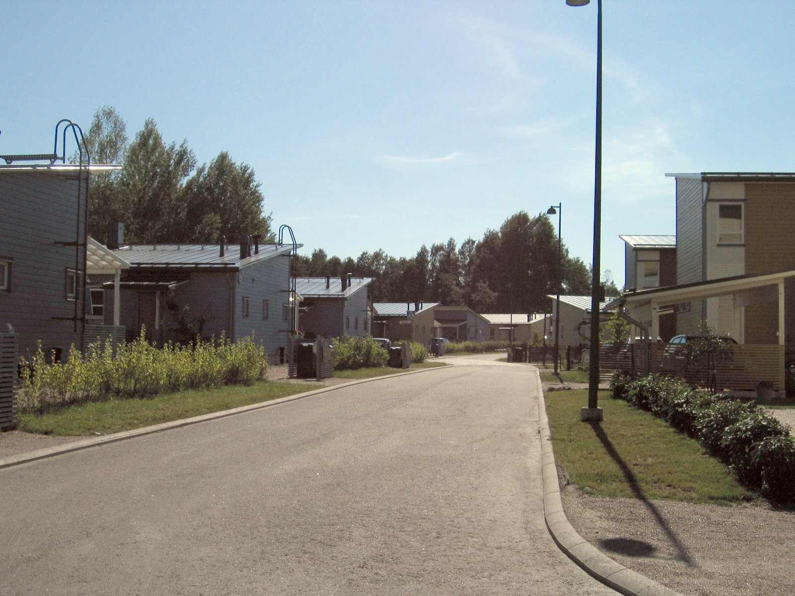 Puu-Ylästö area in Ylästö district, Vantaa, Finland